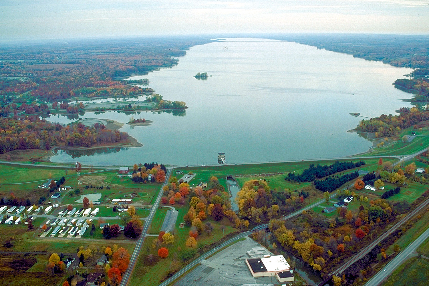 Mosquito Creek Reservoir in Trumbull County, Ohio, USA. The town of Cortland, Ohio is immediately to the right of the picture. Mosquito Creek State Park completely surrounds the lake. View is upstream to the north. Ohio State Route 5 is just visible in the lower right-hand corner. Ohio State Route 88 bridges the reservoir in the far distance.